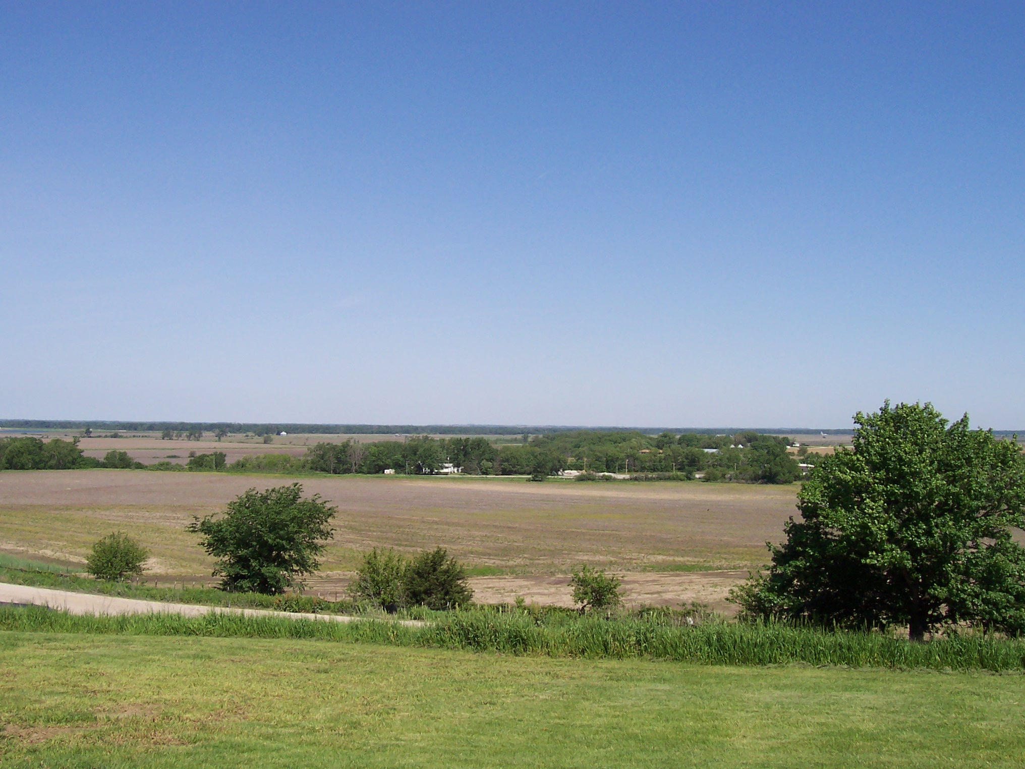 Platte River valley west of Omaha. Picture taken by me